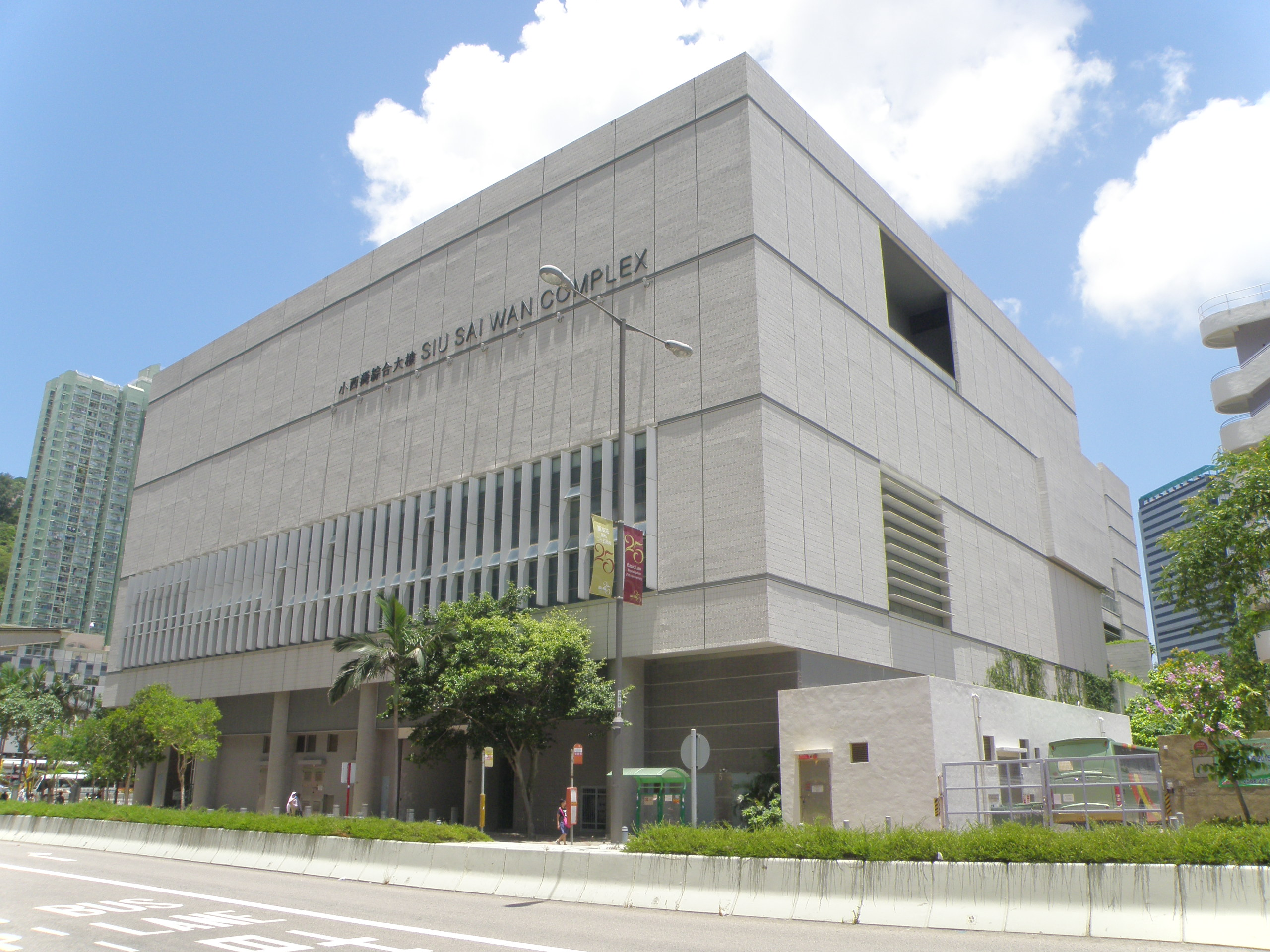 Siu Sai Wan Complex in Siu Sai Wan, Hong Kong.